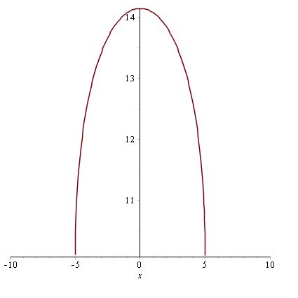 Reflection of light from a semi circle